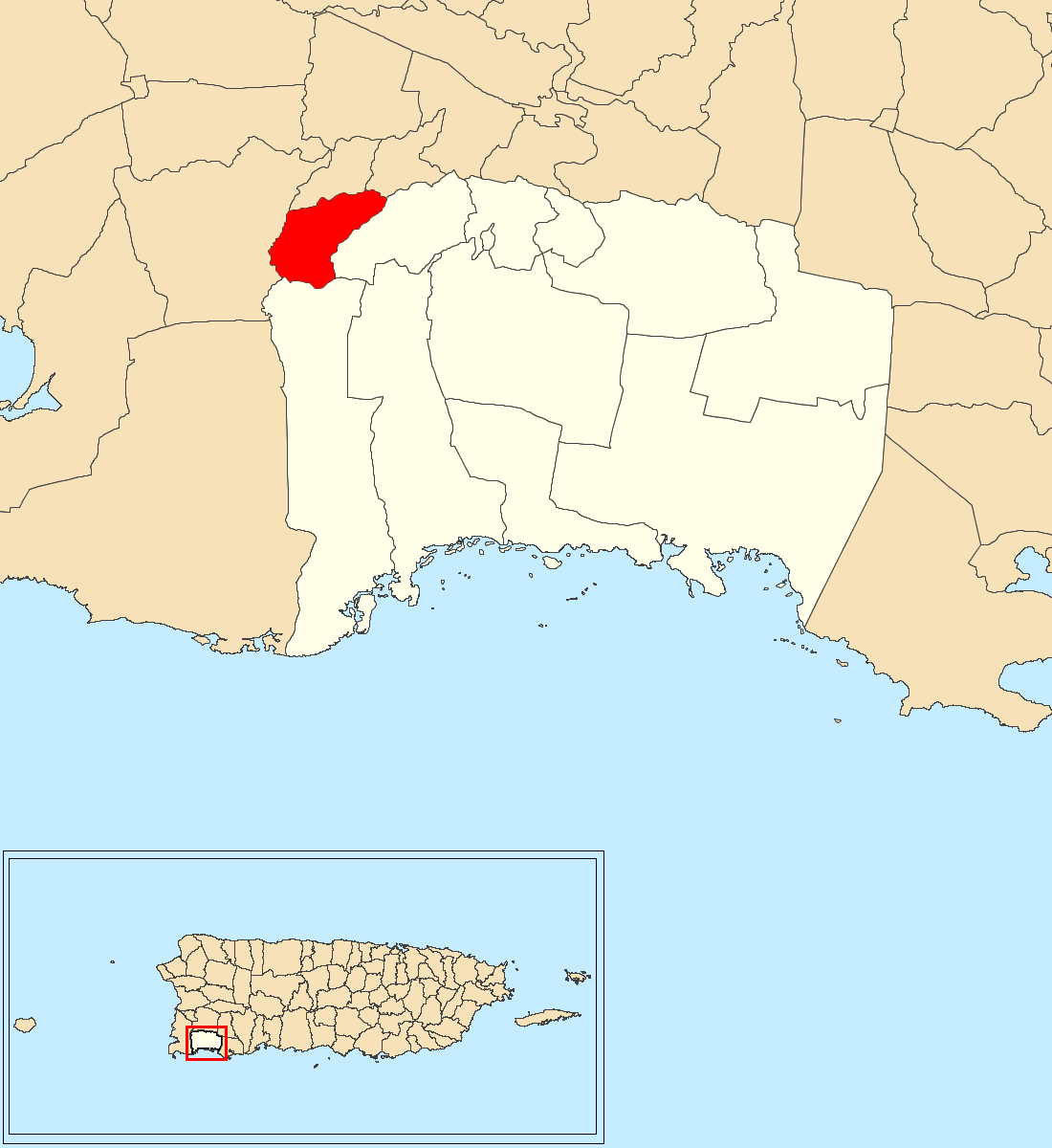 París, Lajas, Puerto Rico locator map